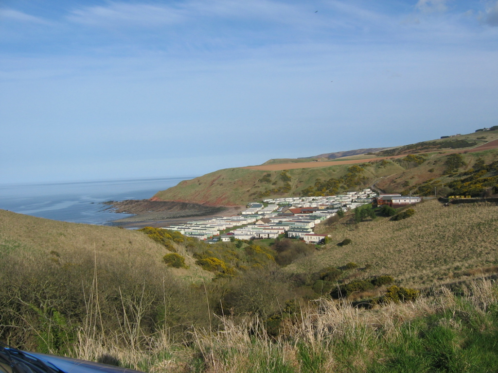 Pease Bay caravan site, Scottish Borders